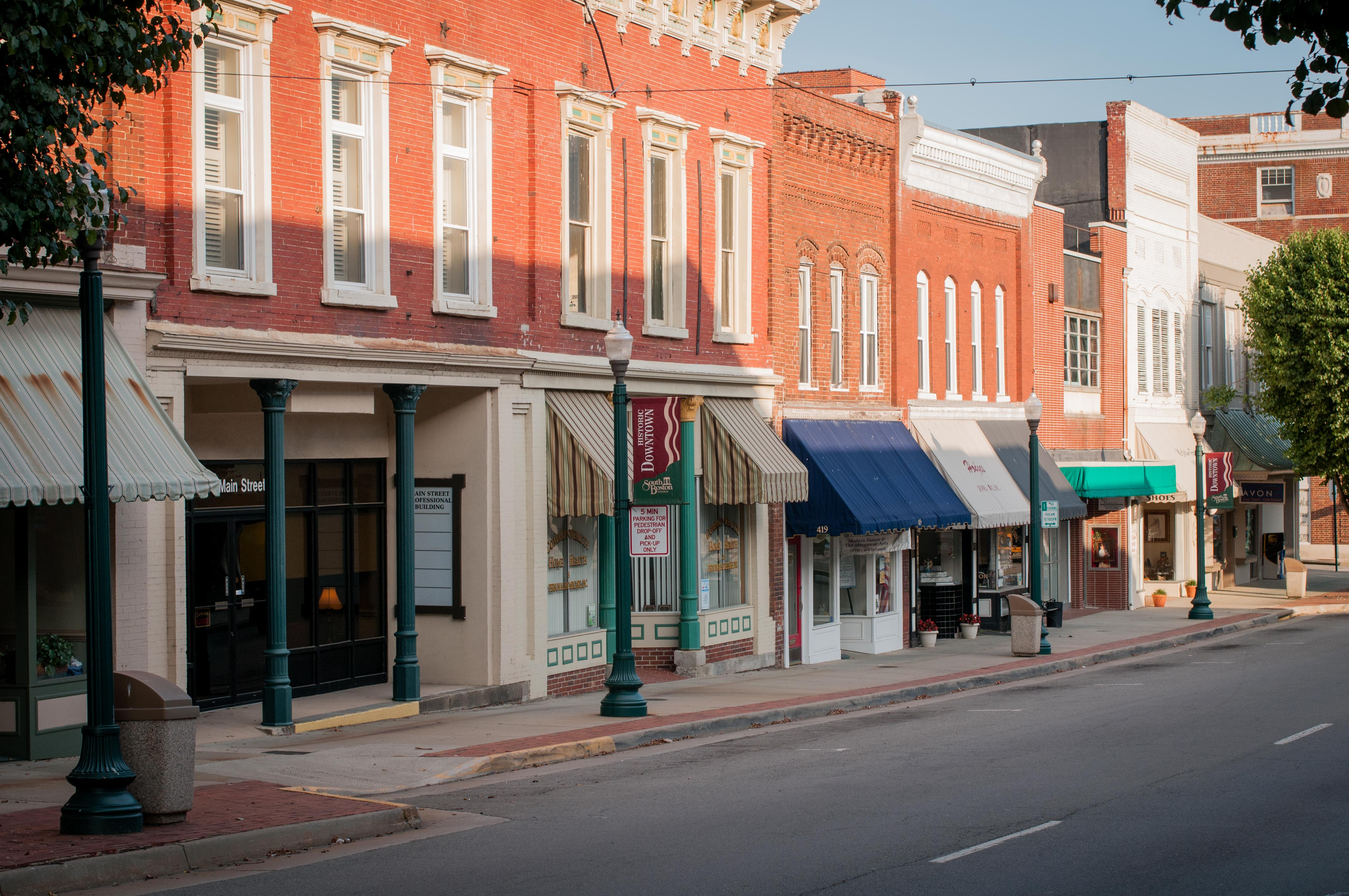 Main Street, South Boston.